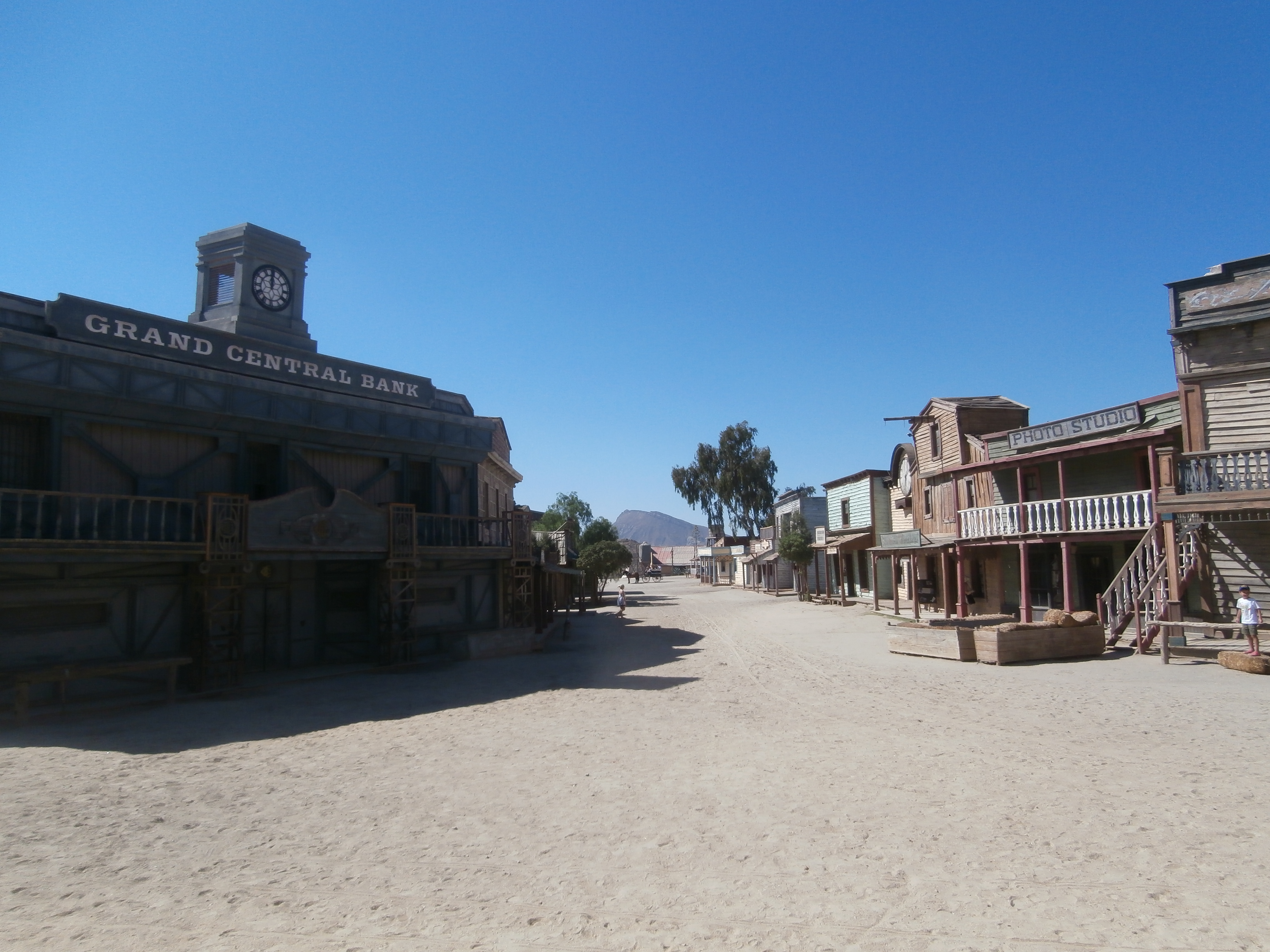 Grand Central Bank Fort Bravo/texas Hollywood September 2013